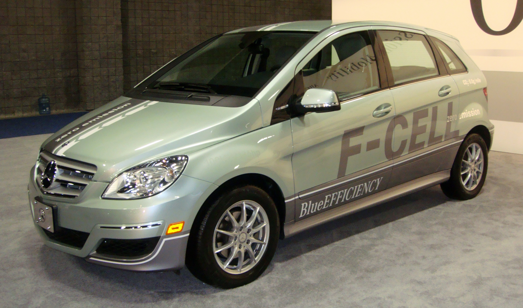 Mercedes-Benz F-Cell Class B exhibited at the 2011 Washington Auto Show